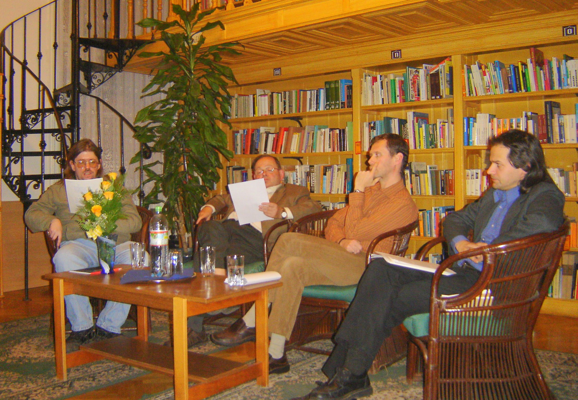 Literary night. Sándor Rusz and his writer friends.